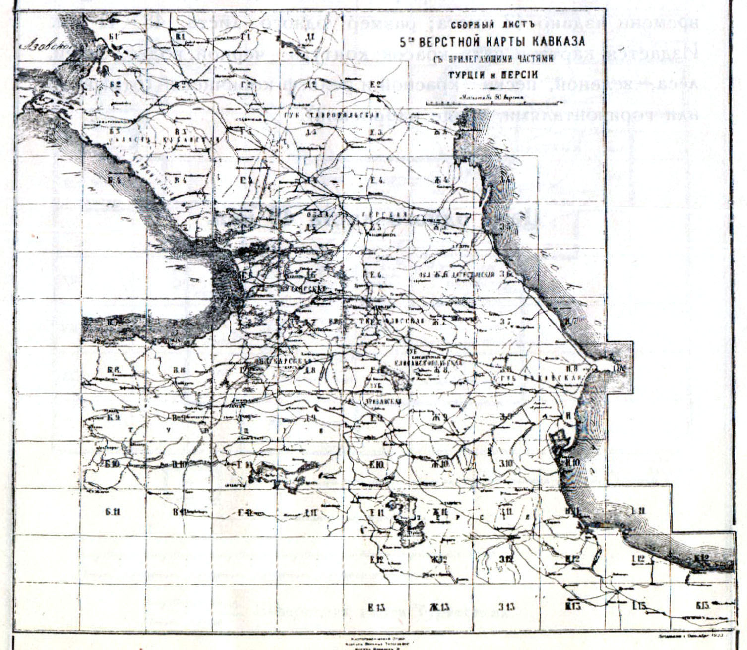 Map of the Caucasus 5 verst